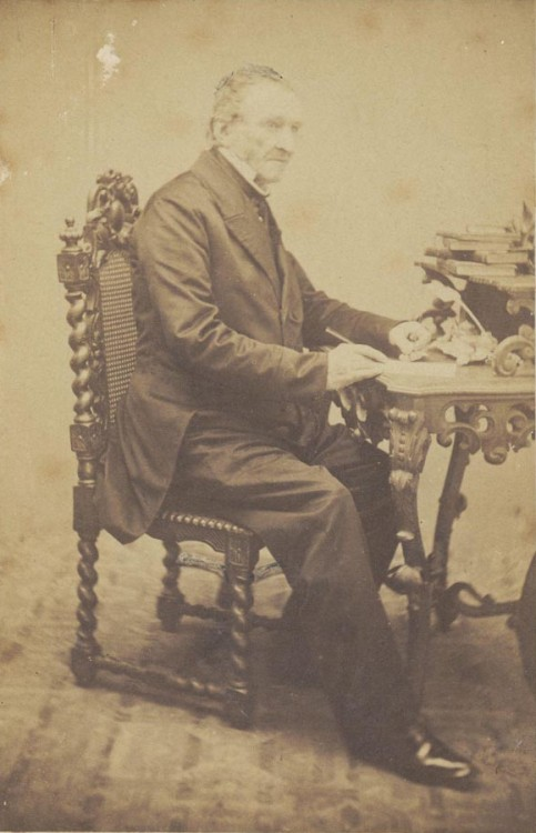 Portrait of the architect Salomon van der Paauw